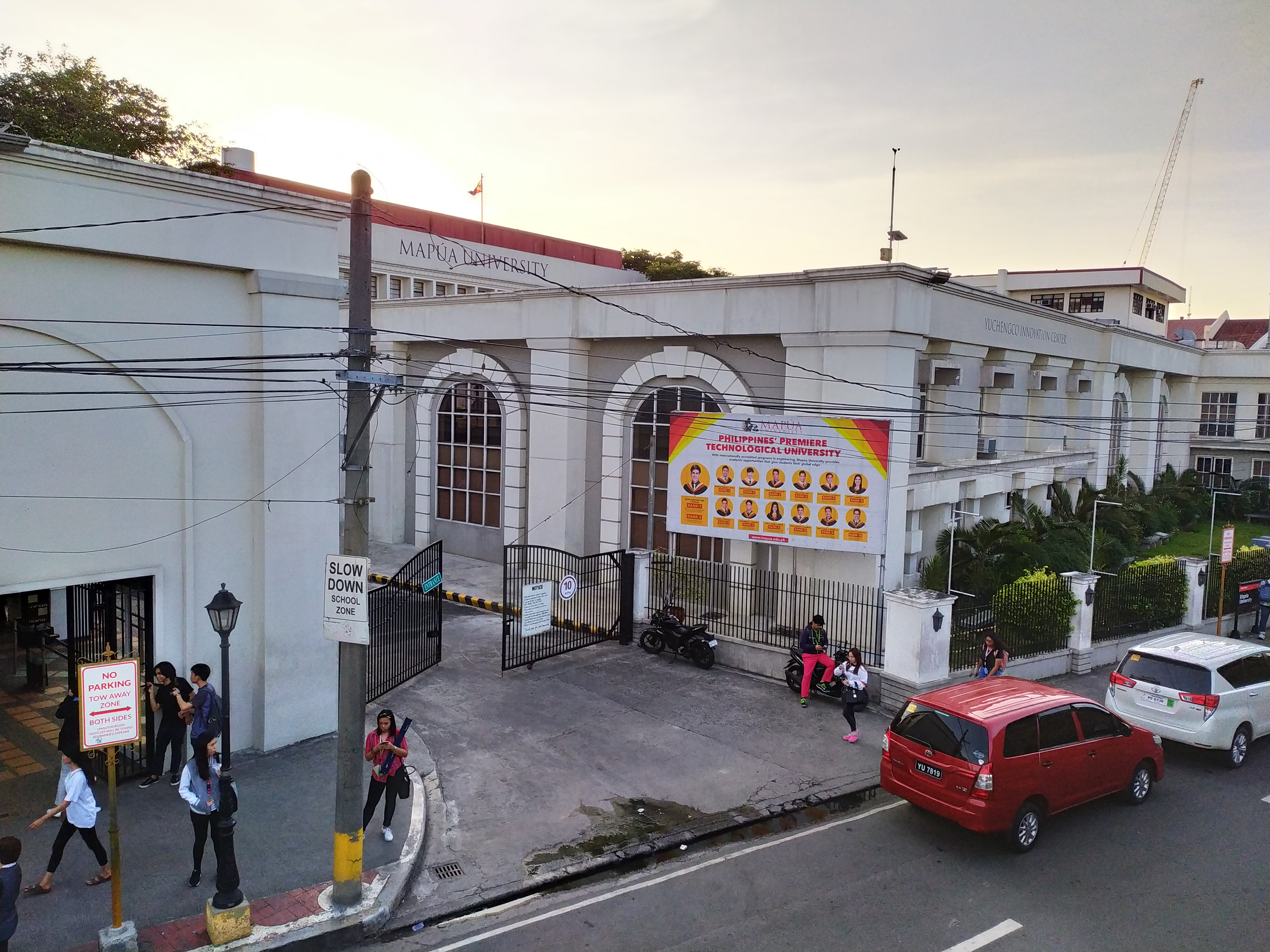 Just outside the main entrance of Mapúa University Intramuros' campus